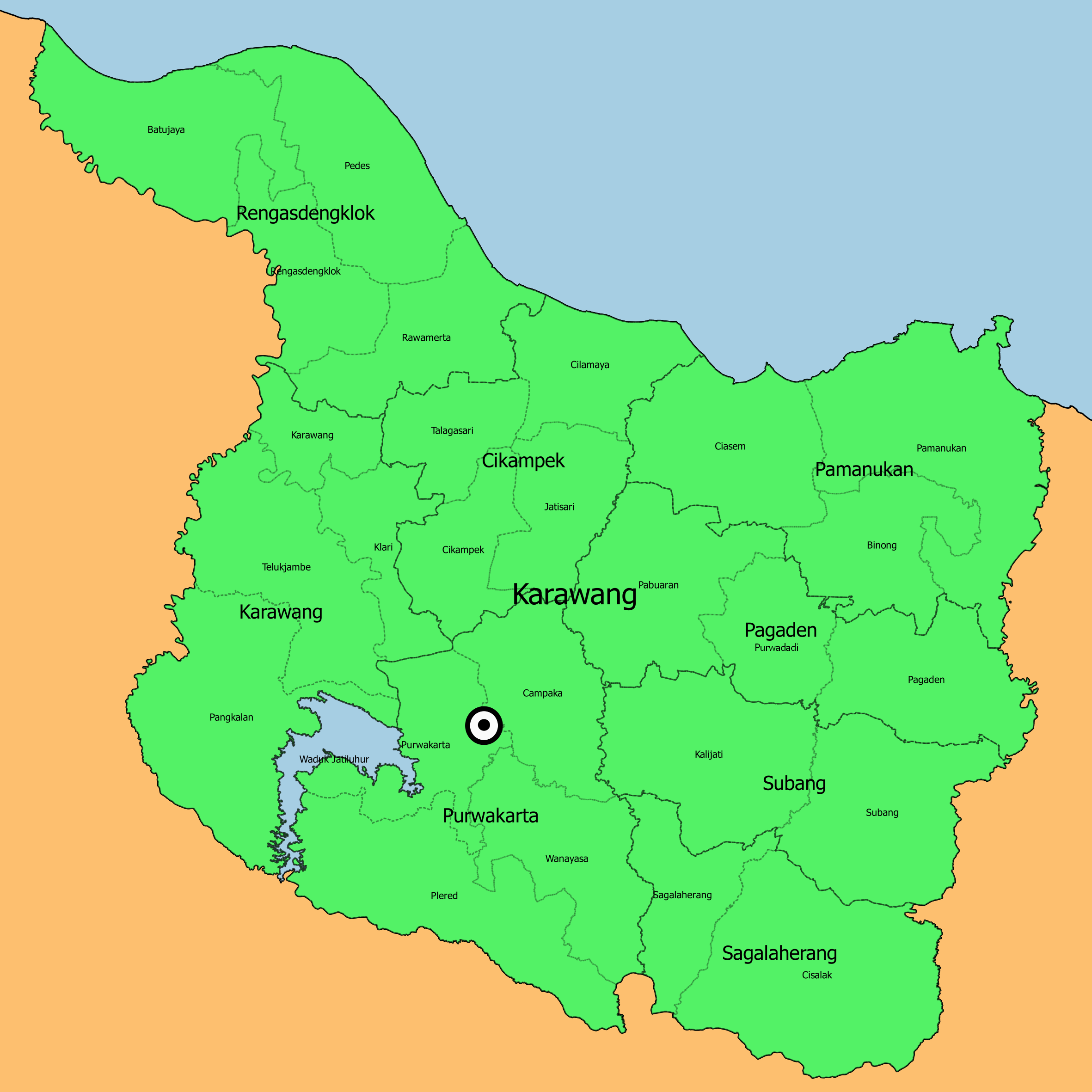 Showed up Purwasuka geocultural region in 1930's Sunda: Nampilkeun wilayah geobudaya Purwasuka dina taun 1930